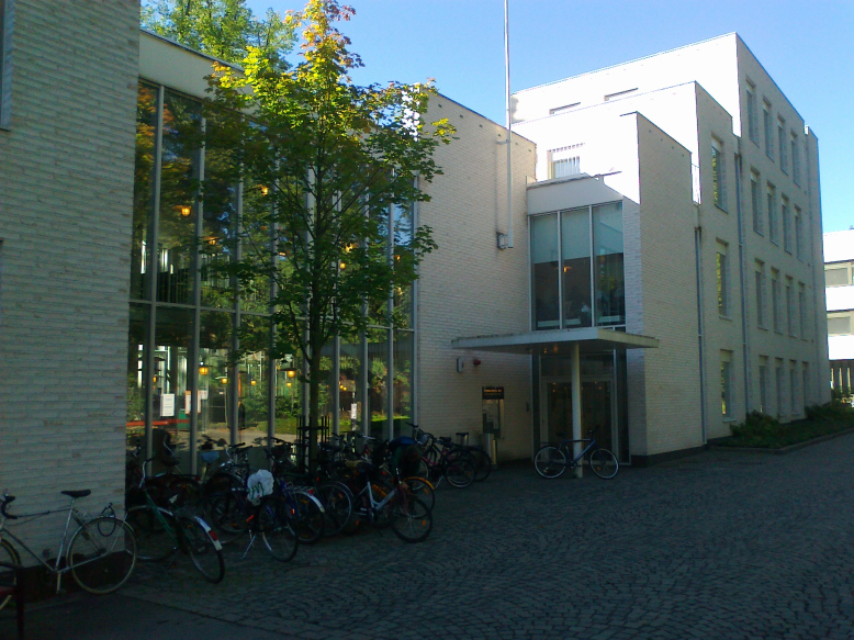 The building of the Swedish School of Social Sciences (Svenska social- och kommunalhögskolan) in Helsinki in 2013. Built in 2009. Design by Juha Leiviskä.